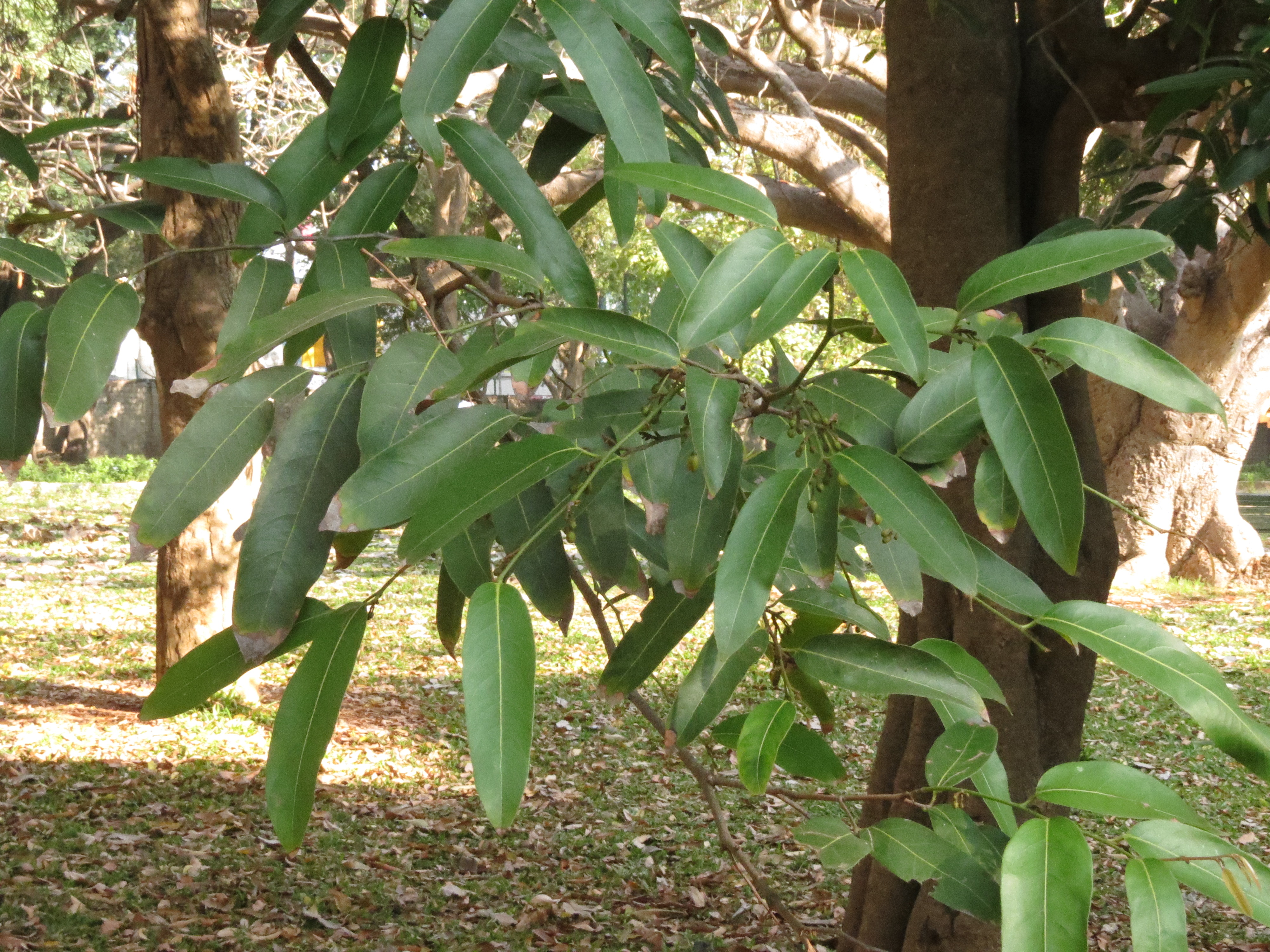 Hydnocarpus alpina leaves seen in Lalbagh botanical garden Bengaluru